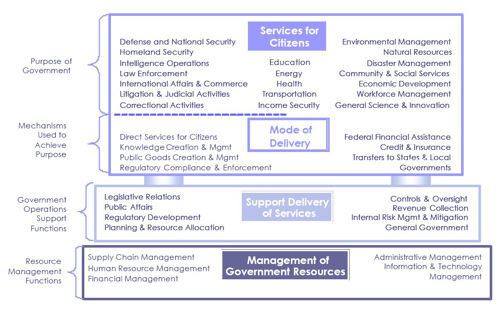 Business Reference Model. The Business Reference Model provides a framework that facilitates a functional (as opposed to organizational) view of the federal government’s LoBs, including its internal operations and its services for the citizens, independent of the agencies, bureaus and offices that perform them. By describing the federal government around common business areas instead of by a stovepiped, agency-by-agency view, the BRM promotes agency collaboration and serves as the underlying foundation for the FEA and E-Gov strategies. While the BRM does provide an improved way of thinking about government operations, it is only a model; its true utility can only be realized when it is effectively used. The functional approach promoted by the BRM will do little to help accomplish the goals of E-Government if it is not incorporated into EA business architectures and the management processes of all Federal agencies and OMB.